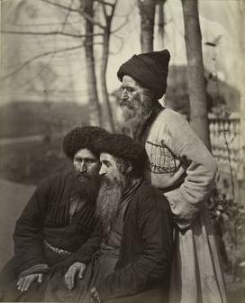 Caucasus. Jew. Image description: Kavkaz. Evrei.